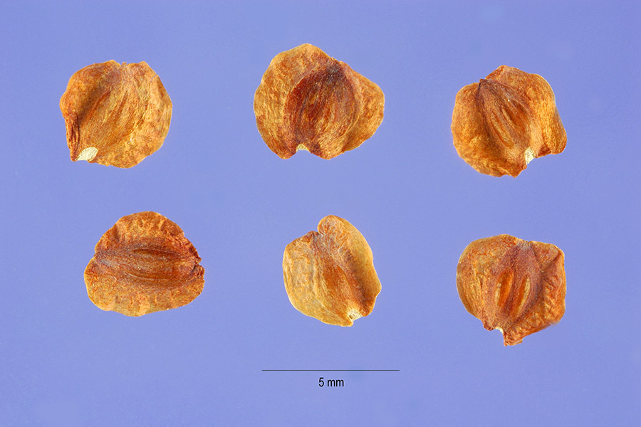 Seeds of Lawson's Cypress (Chamaecyparis lawsoniana)